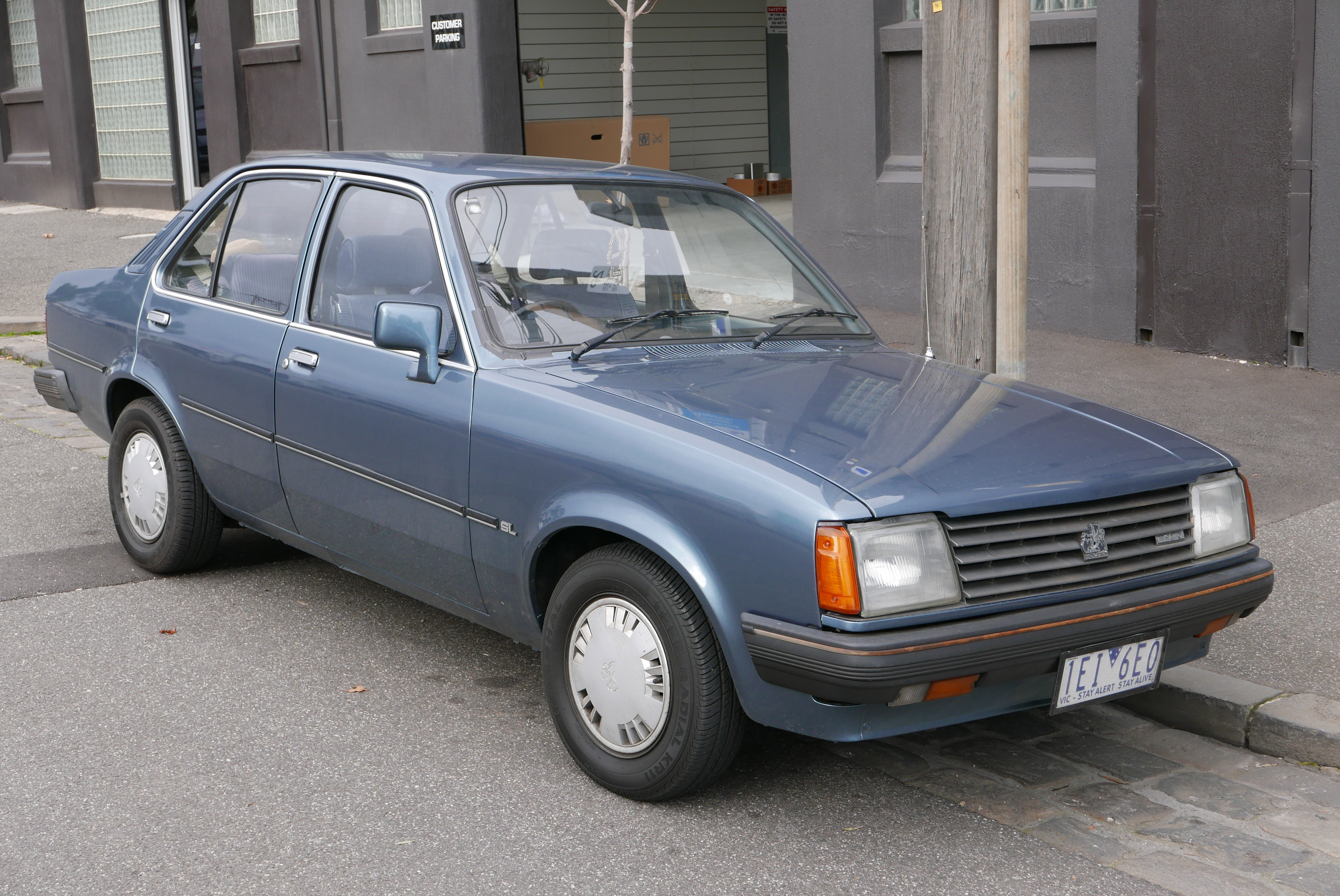 1983 Holden Gemini (TG) SL sedan. Photographed in West Melbourne, Victoria, Australia. Vehicle registration enquiry results Jurisdiction Victoria Registration 1EI6EO Chassis code ATG12280B Engine code 263057Q Compliance date 1983-11 Year of manufacture 1983